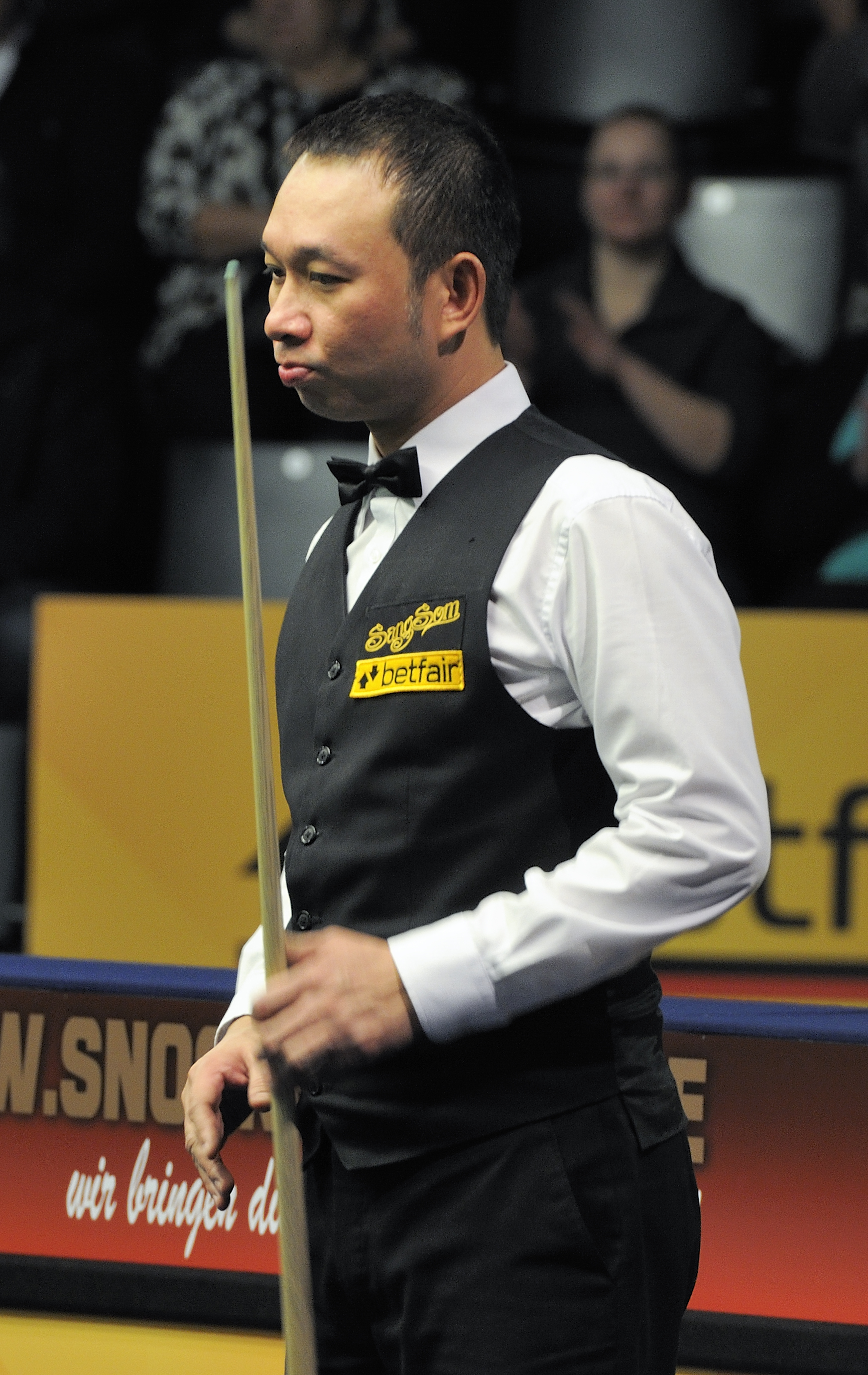 Picture taken in Berlin during the Snooker German Masters in 2013. James Wattana.